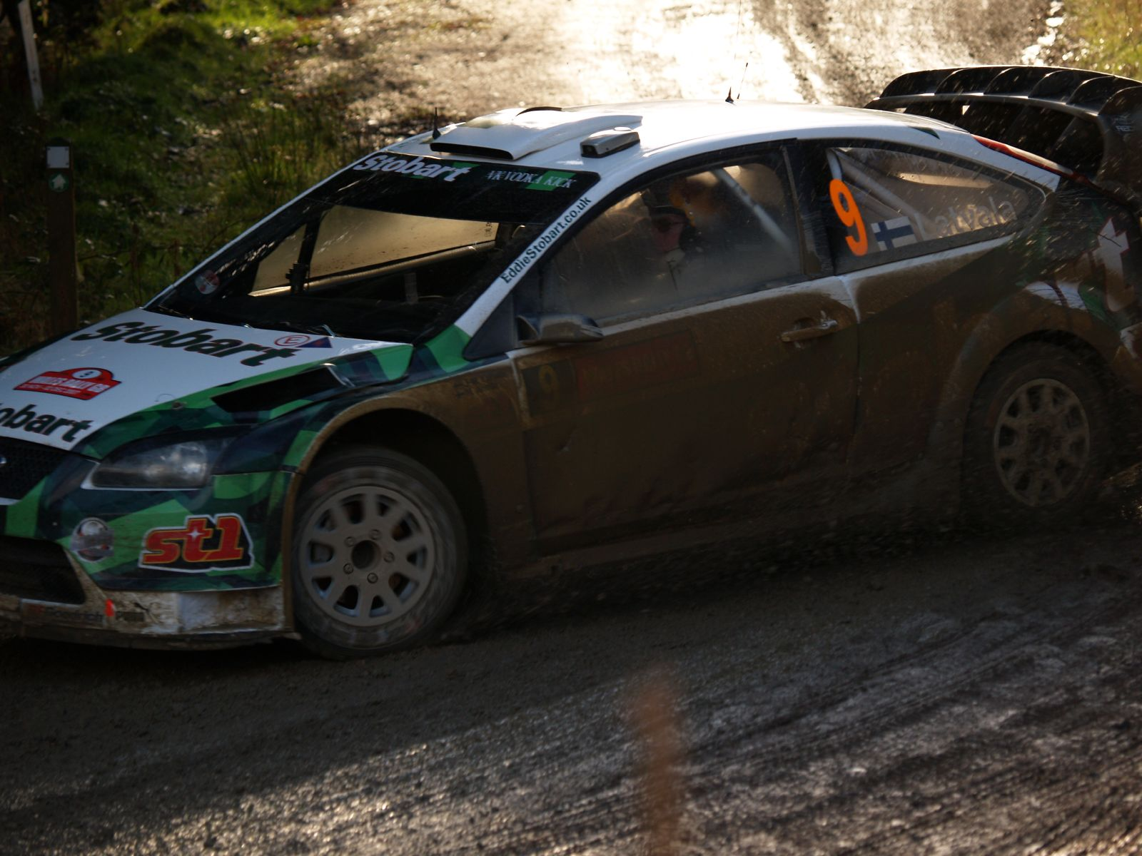 Jari-Matti Latvala driving his Stobart's Ford Focus RS WRC 06 during 2007 Wales Rally GB.